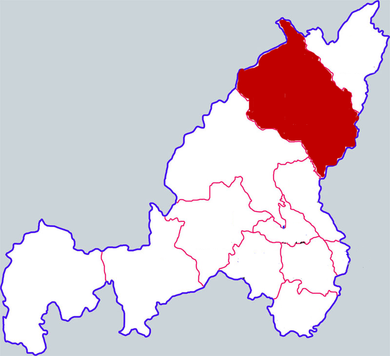 Location of Shenmu county in Yulin city, Shaanxi province, China